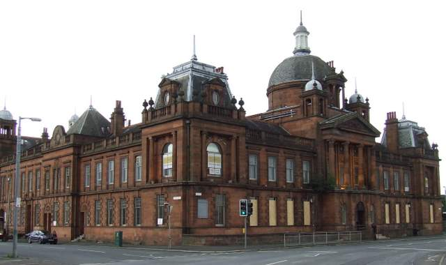 Govan Town Hall. The front facade of the building on Govan Road. See also 956906, 956912, 956914 & 956919.